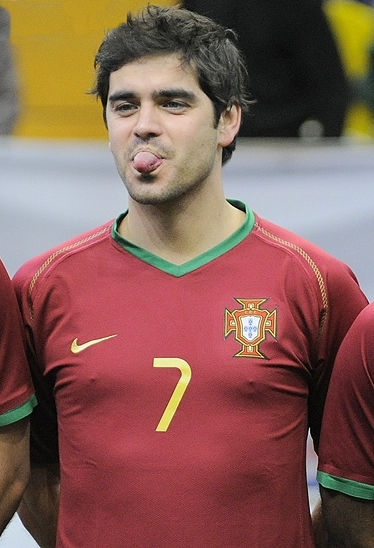 Daniel da Cruz Carvalho at 2011 Legends Cup